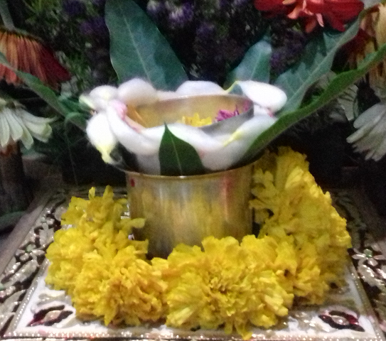 Khadyachya Gauri as worshipped in Maharashtra, India